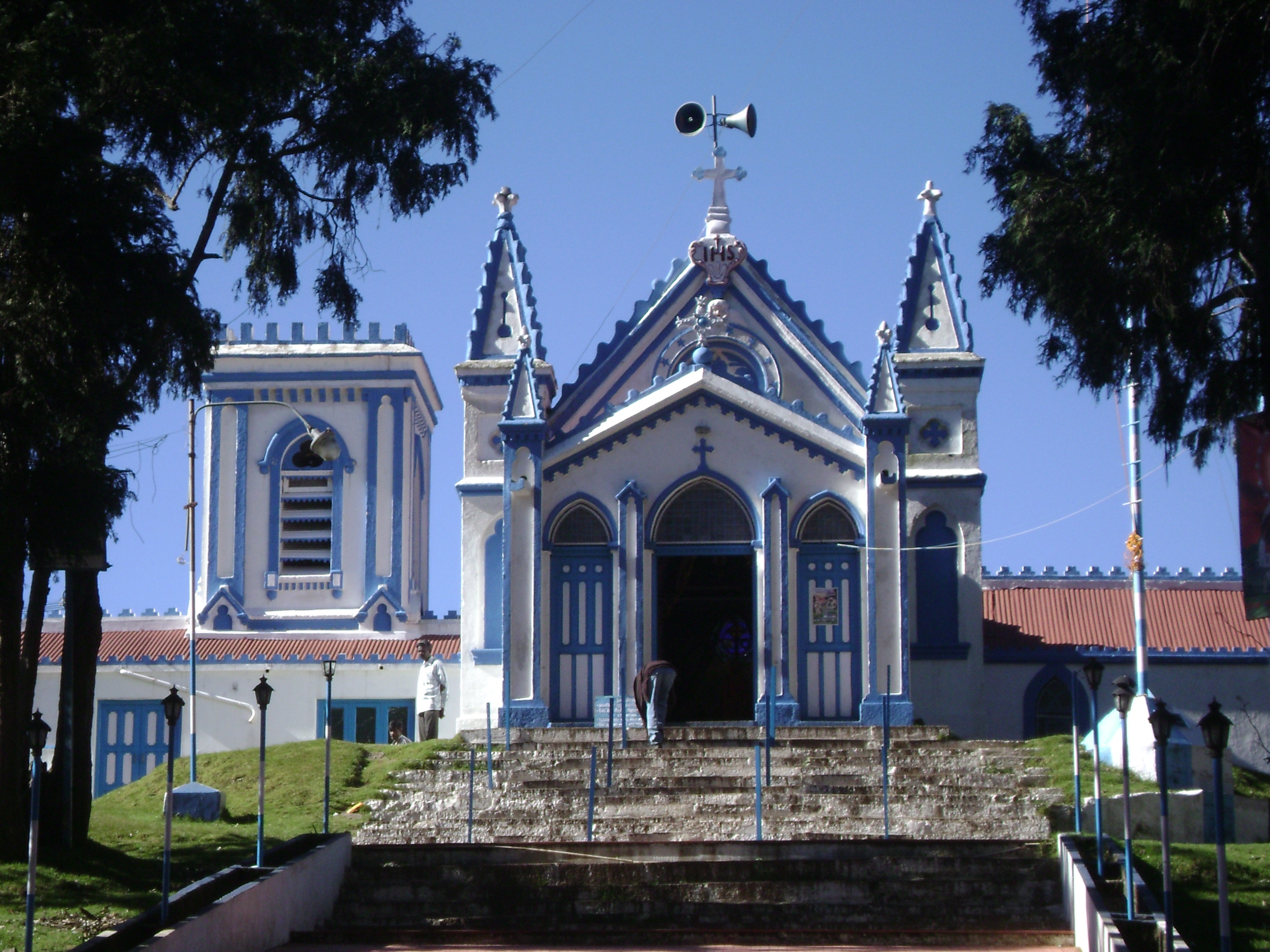 La Sallete Church, Kodaikanal